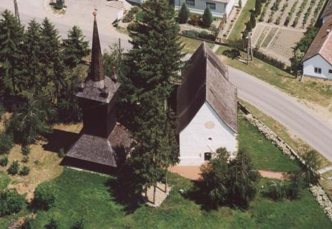 Vámosatya, Hungary, aerialphotgraphy